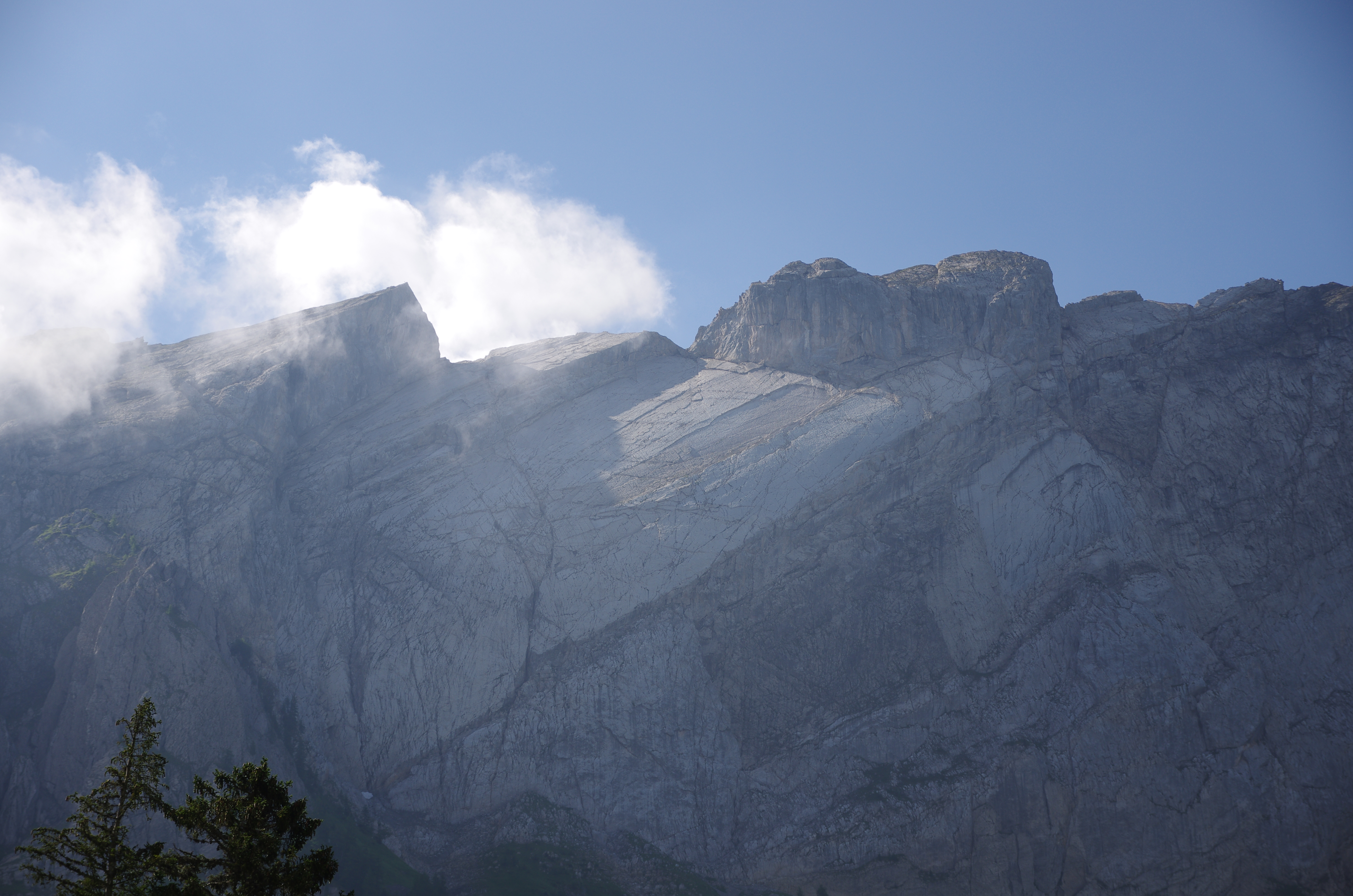 L'Argentine Mirror, Bex, Vaud, Switzerland